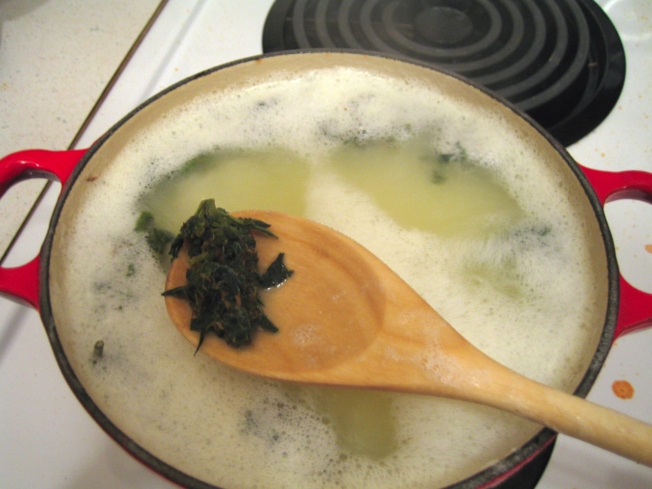 Making Cannabutter I took this photograph myself.